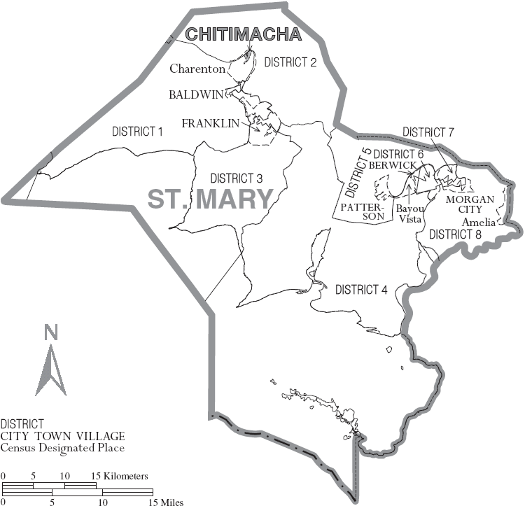 Map of St._Mary Parish, Louisiana, United States with municipal and district boundaries